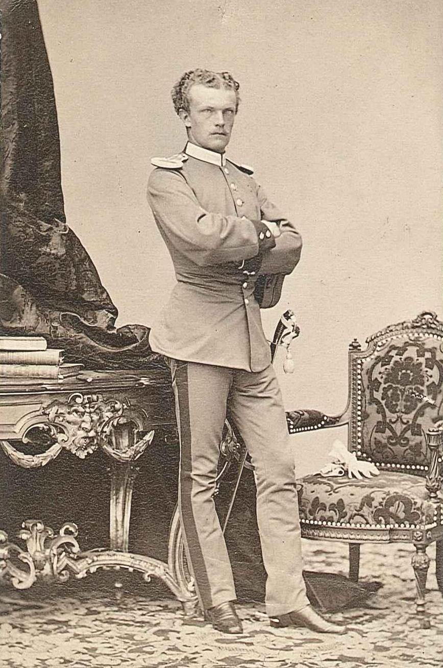 Portrait of Karl Theodor, Duke in Bavaria (1839-1909)